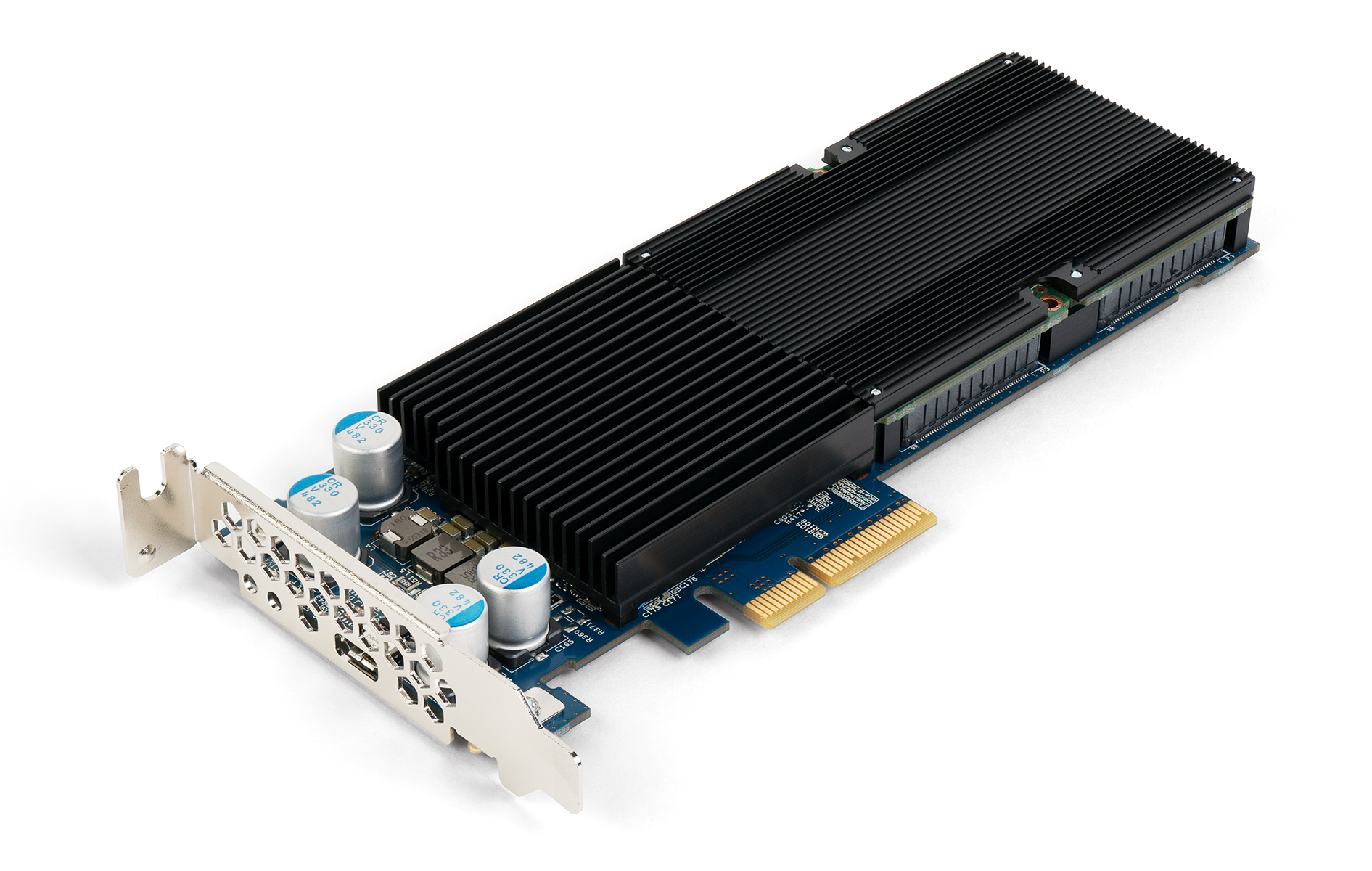 HGST SN150, NVMe-compatible solid-state drive, PCI Express 3.0 x4 low profile add-in card, 1.6TB model